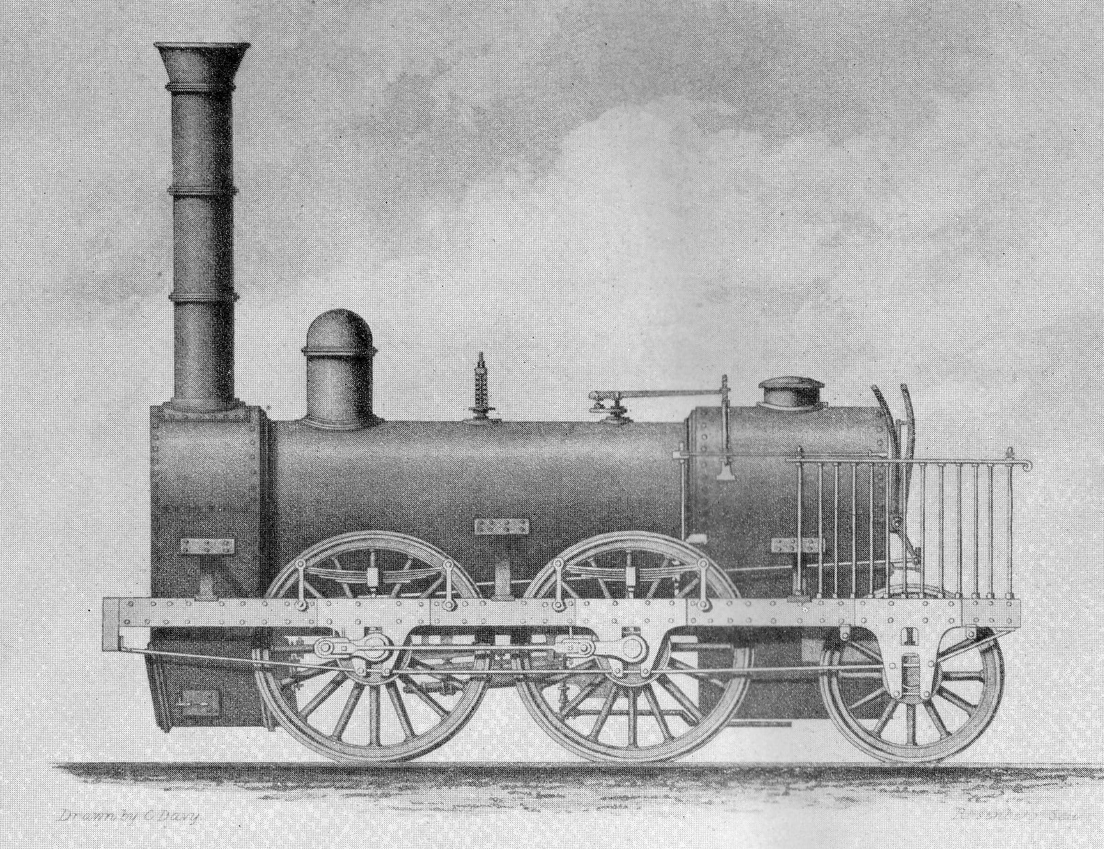 Stephenson's 0-4-2 goods locomotive